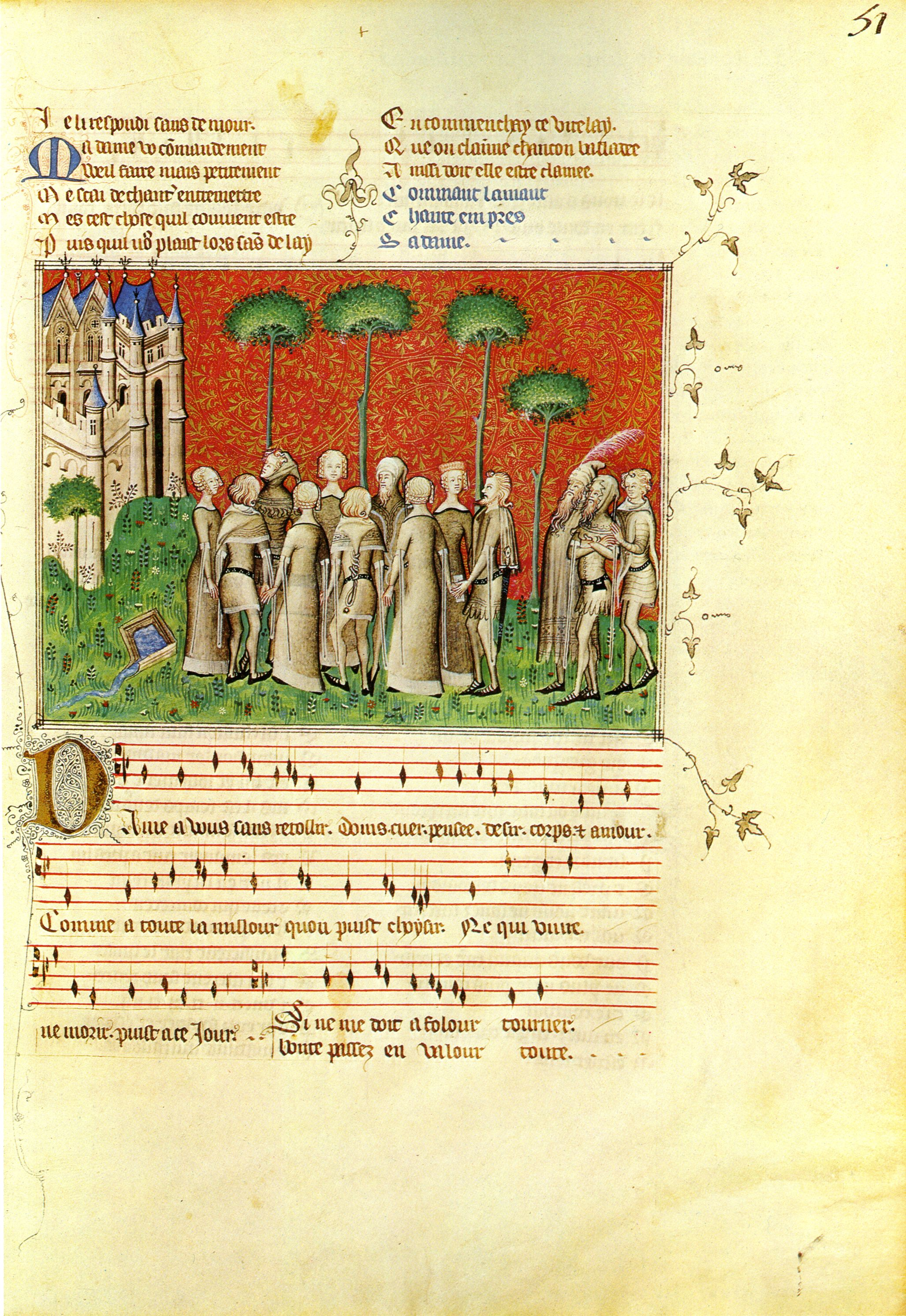 An illumination in a manuscript of Guillaume de Machaut’s verse novel Le remède de fortune showing an outdoors dancing scene. Paris, Bibliothèque Nationale, Ms. fr. 1586, fol. 51r.